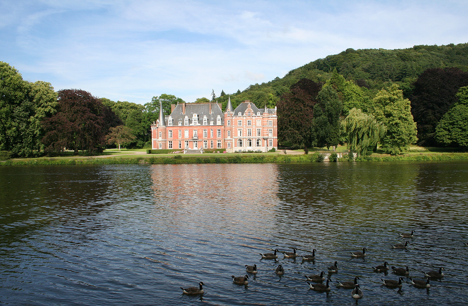 Dave (Belgium), the Meuse River and the « Fernan-Nunez » castle (XVIIth century).